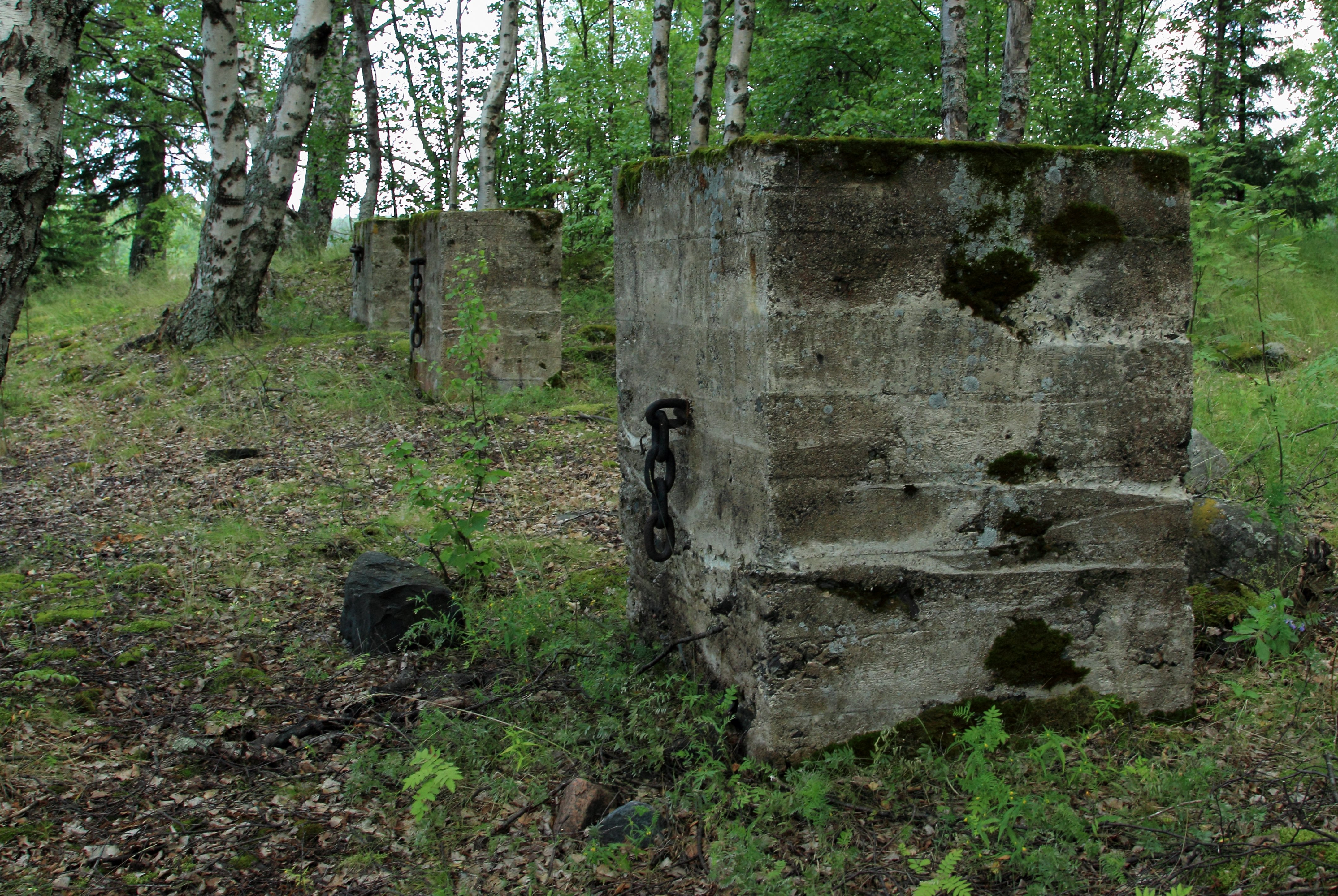 Remains of saw mill buildings in the Pensasletto island on the Halosenlahti Bay in Oulu.